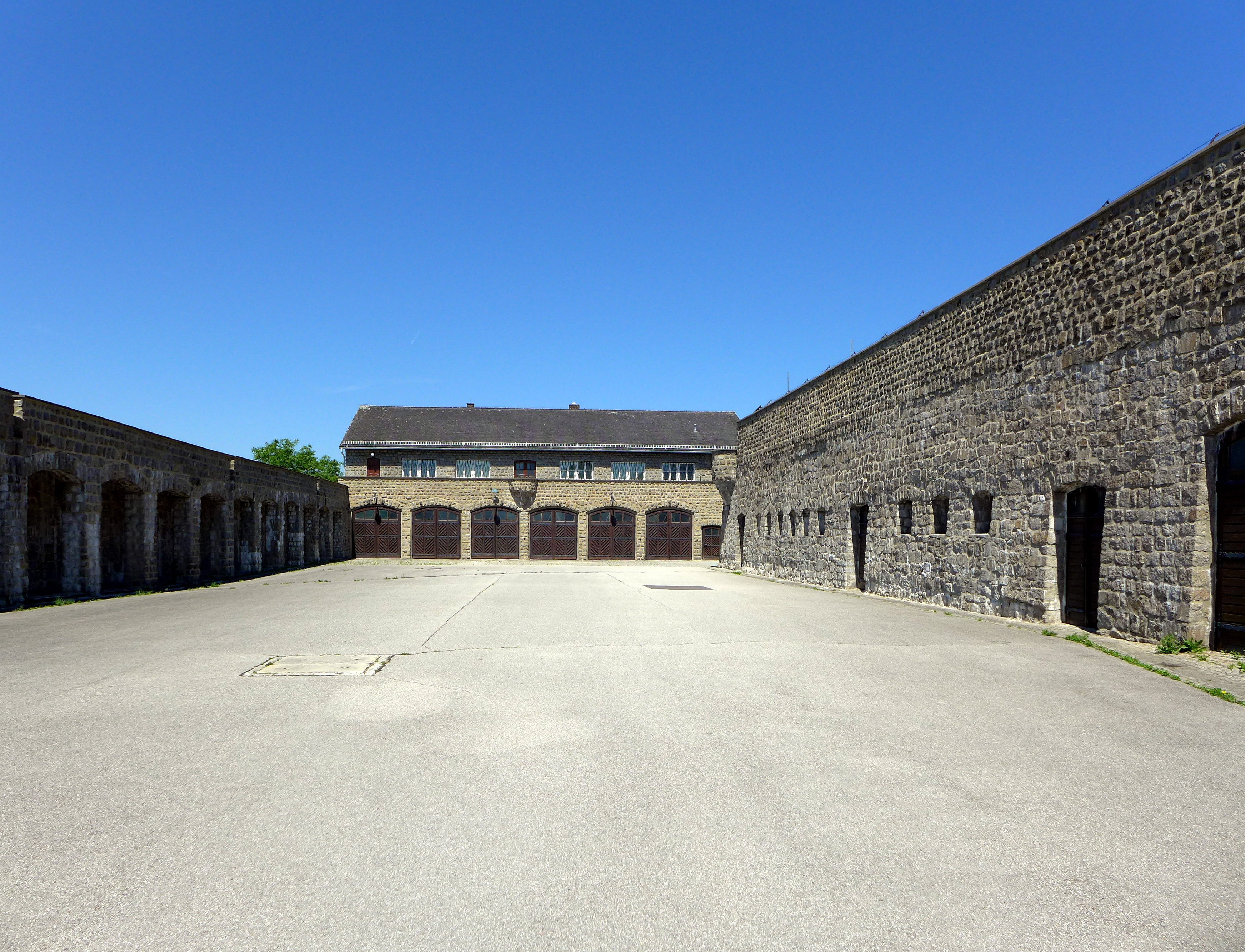 SS staff building and garages, KZ Mauthausen memorial, Mauthausen, Upper Austria, Austria